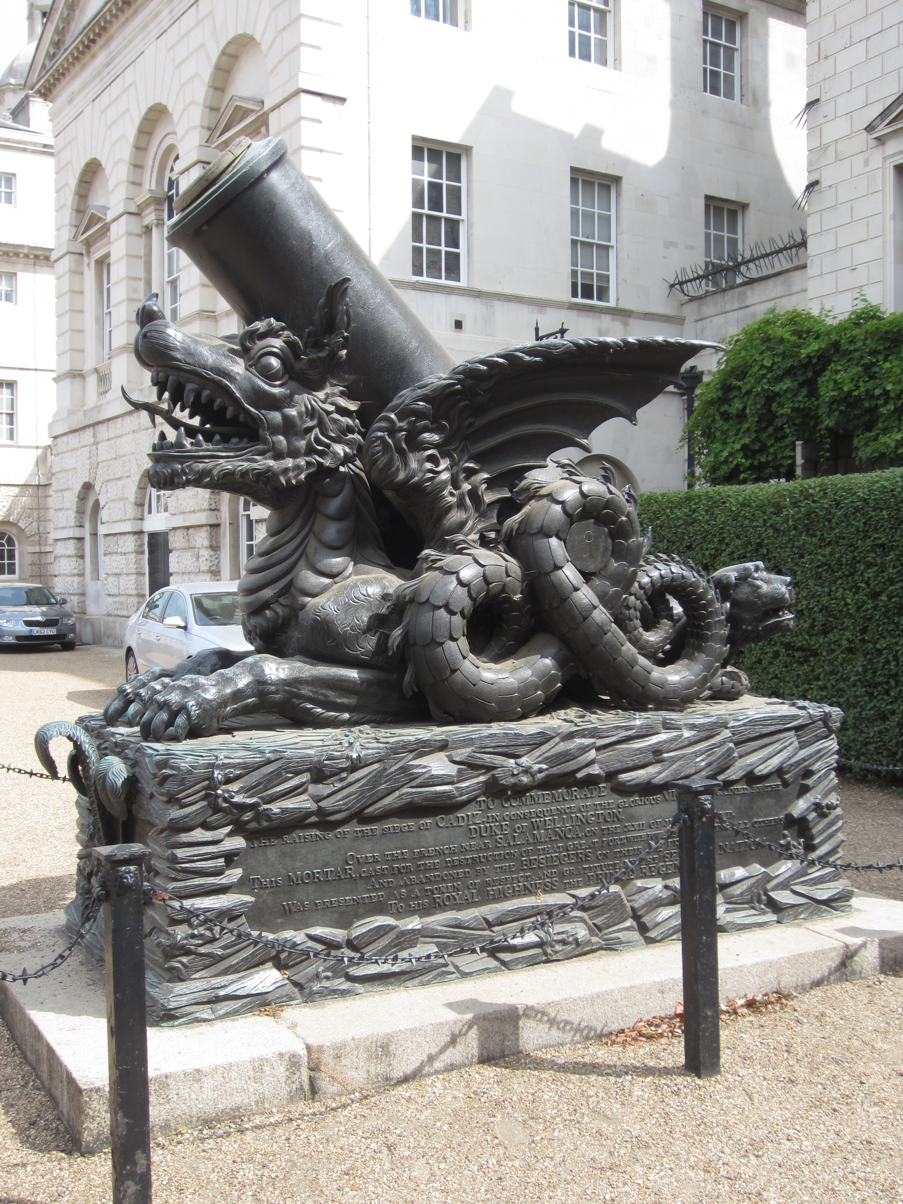 Cádiz Memorial, Horse Guards Parade, London (2014)